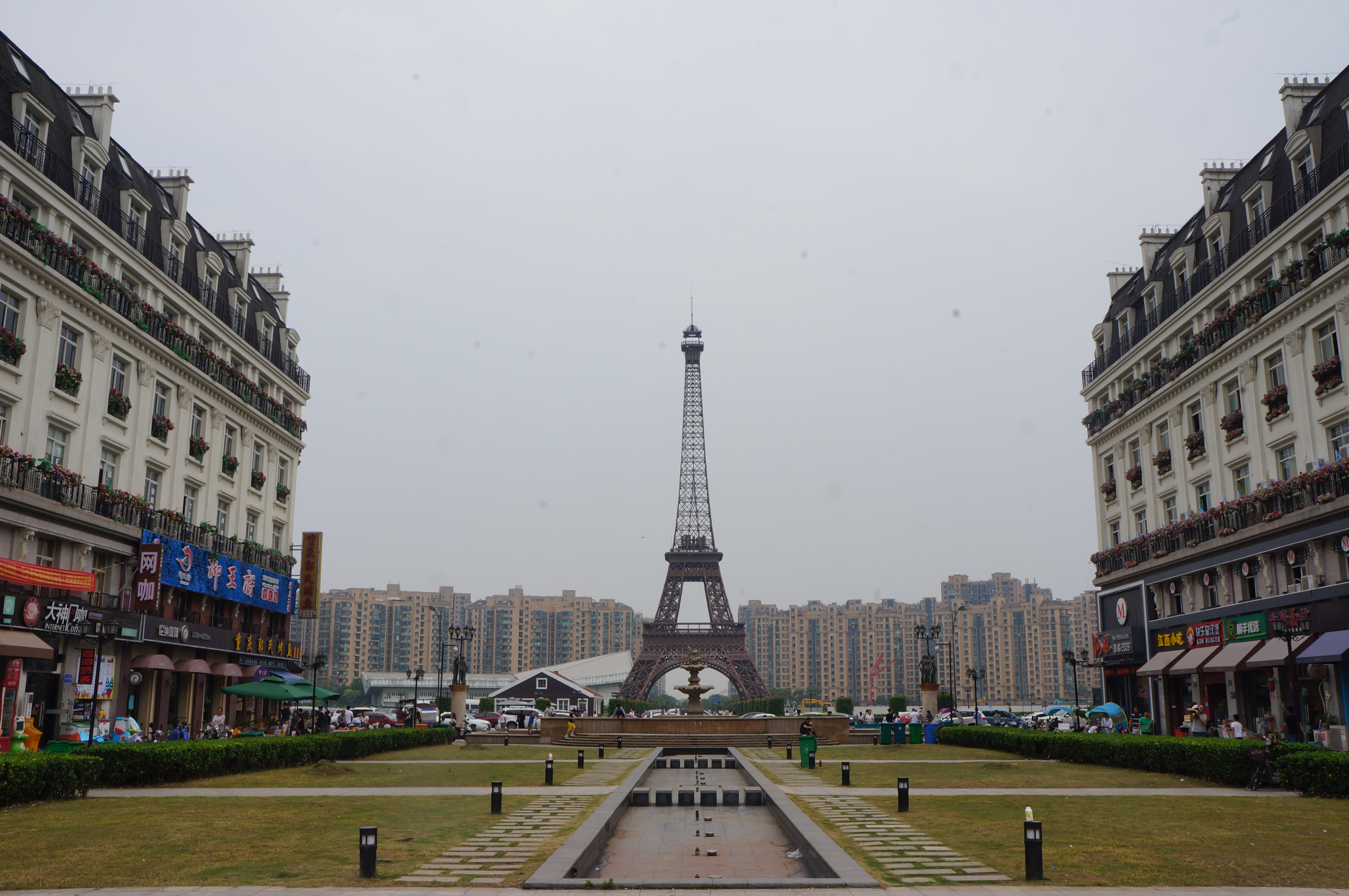 201806 Eiffel Tower viewed from Xiangxie Road.